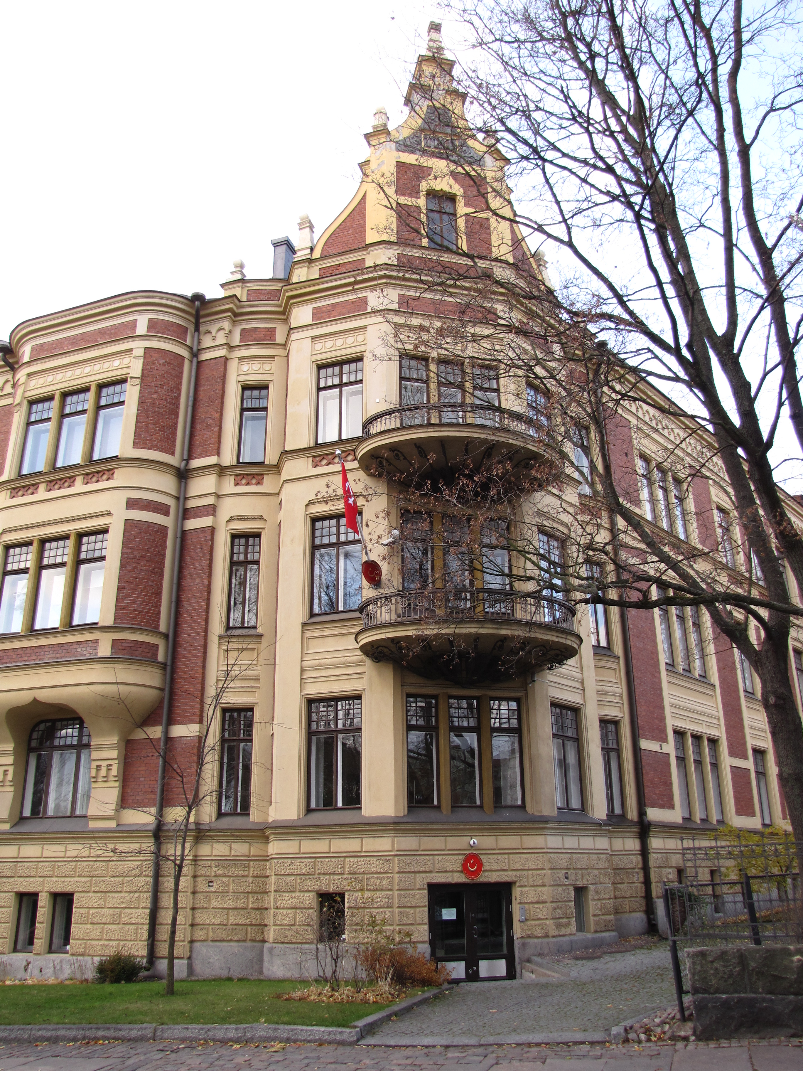 Republic of Turkey embassy in Helsinki. Address Puistokatu 1, Ullanlinna.